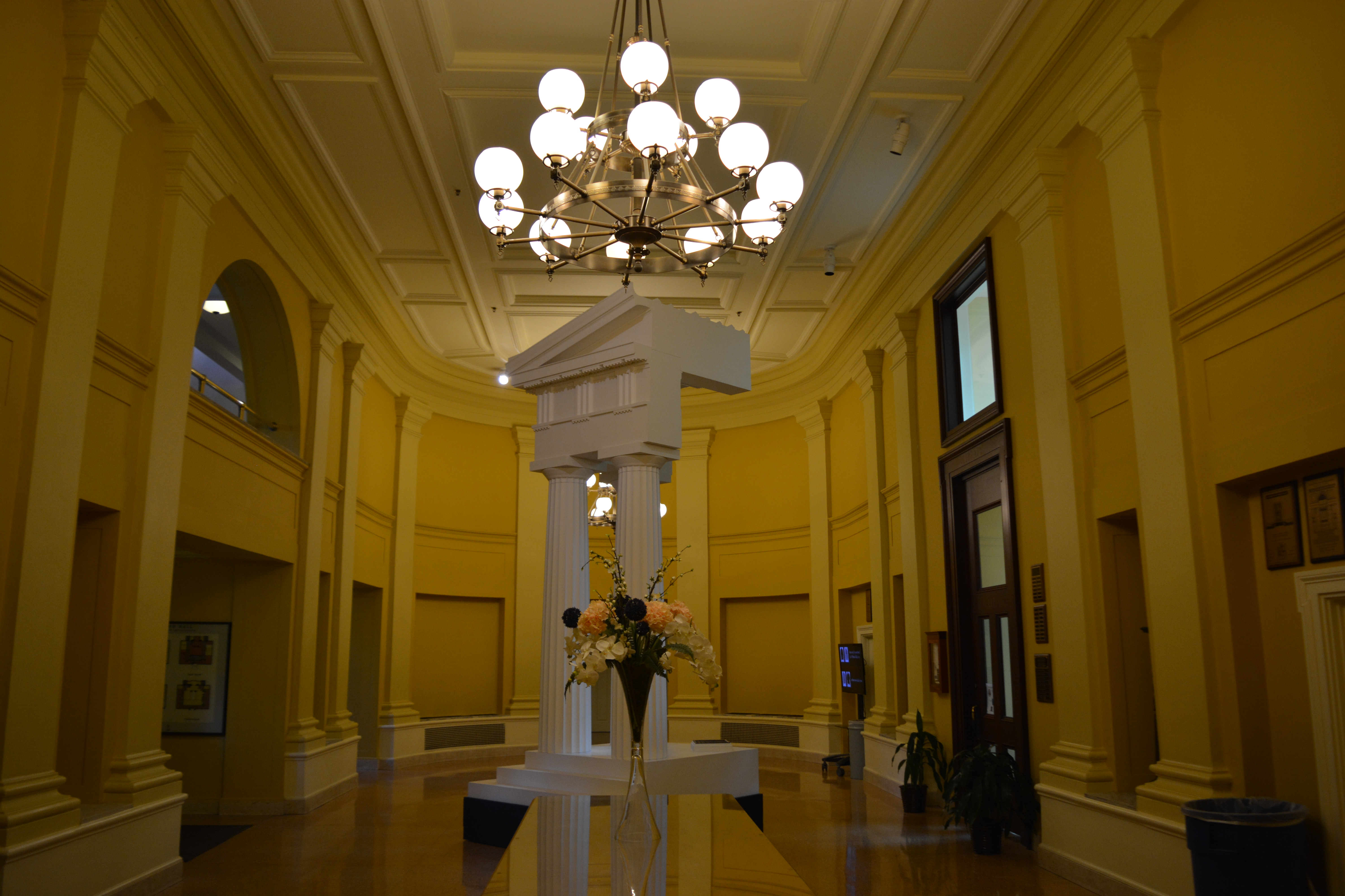 Campus of the University of Notre Dame